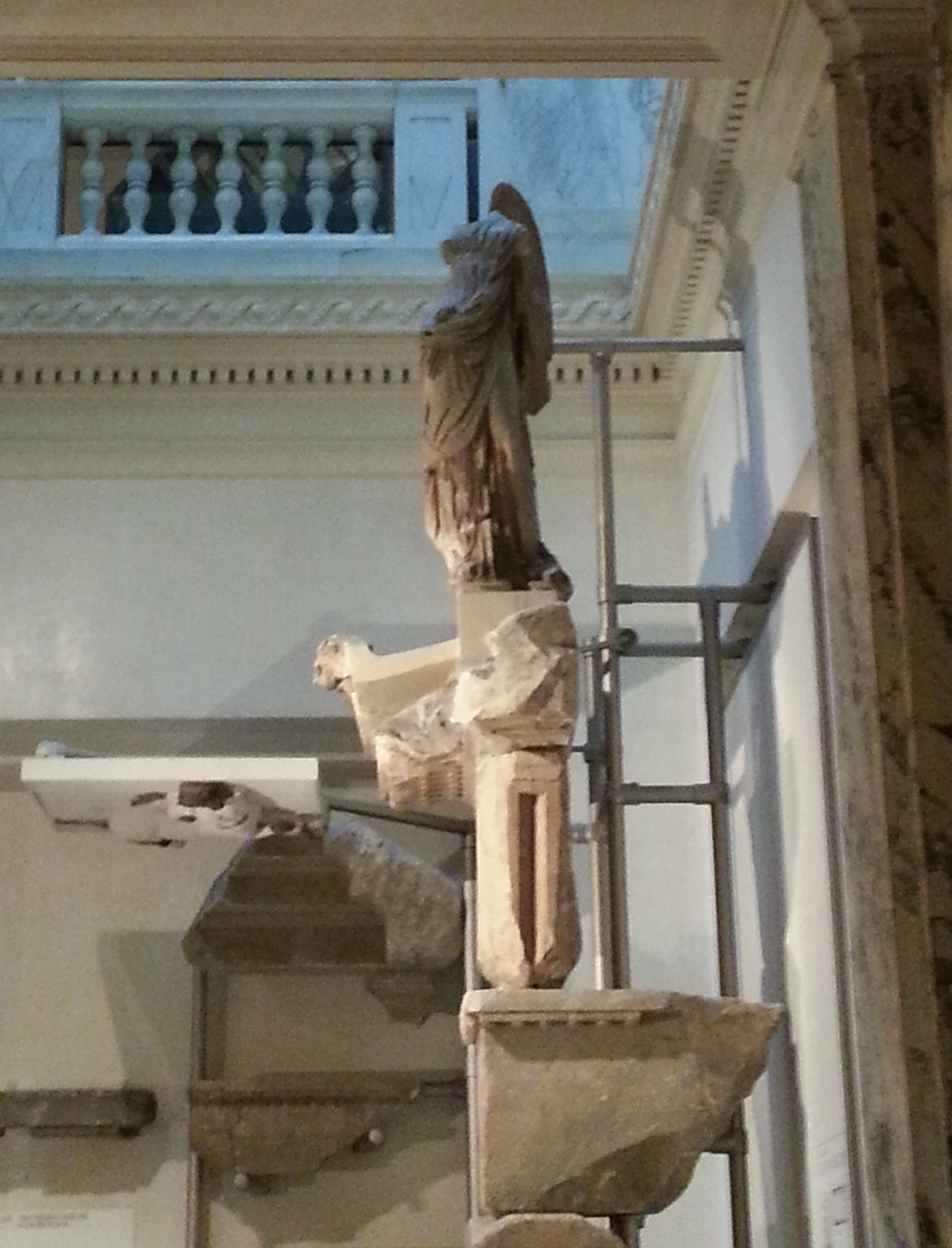 Nike, acroterion from the Hieron in Samothrace Kunsthistorisches Museum Wien, Inv. no. I 680 (Ephesos Museum) image: Kunsthistorisches Museum Wien